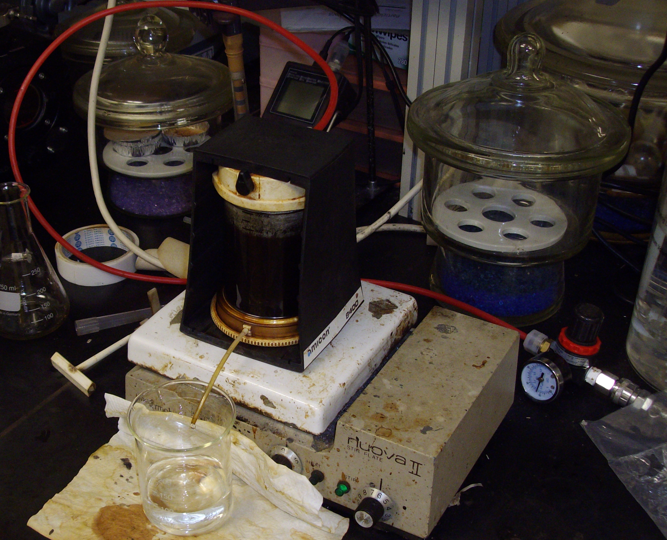 This photo is taken by User:Itsmine, with camera model :PENTAX Optio E30, and double licensed as cc-by-sa-3.0/2.5/2.0/1.0 or GFDL.